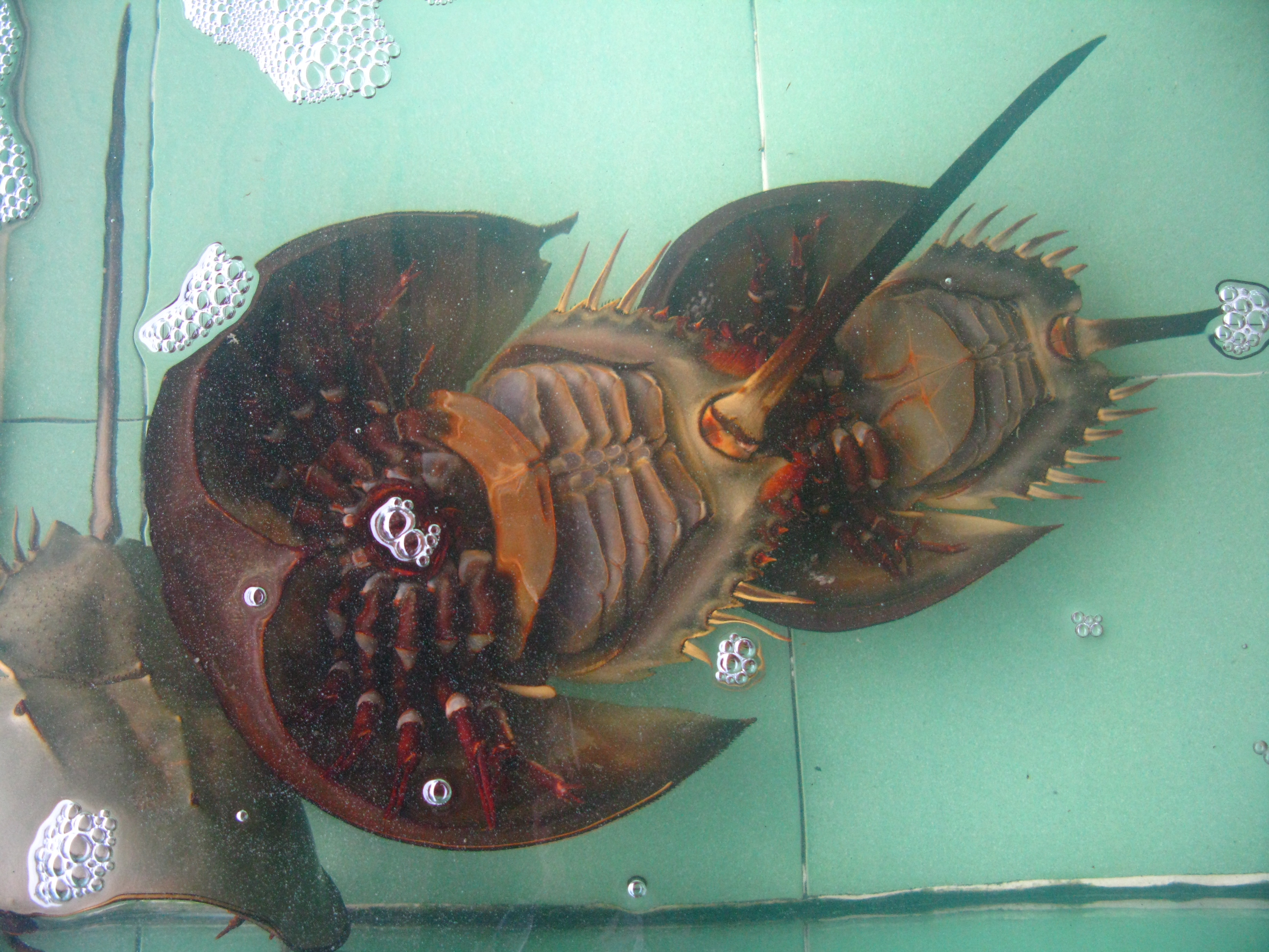 Tachypleus tridentatus